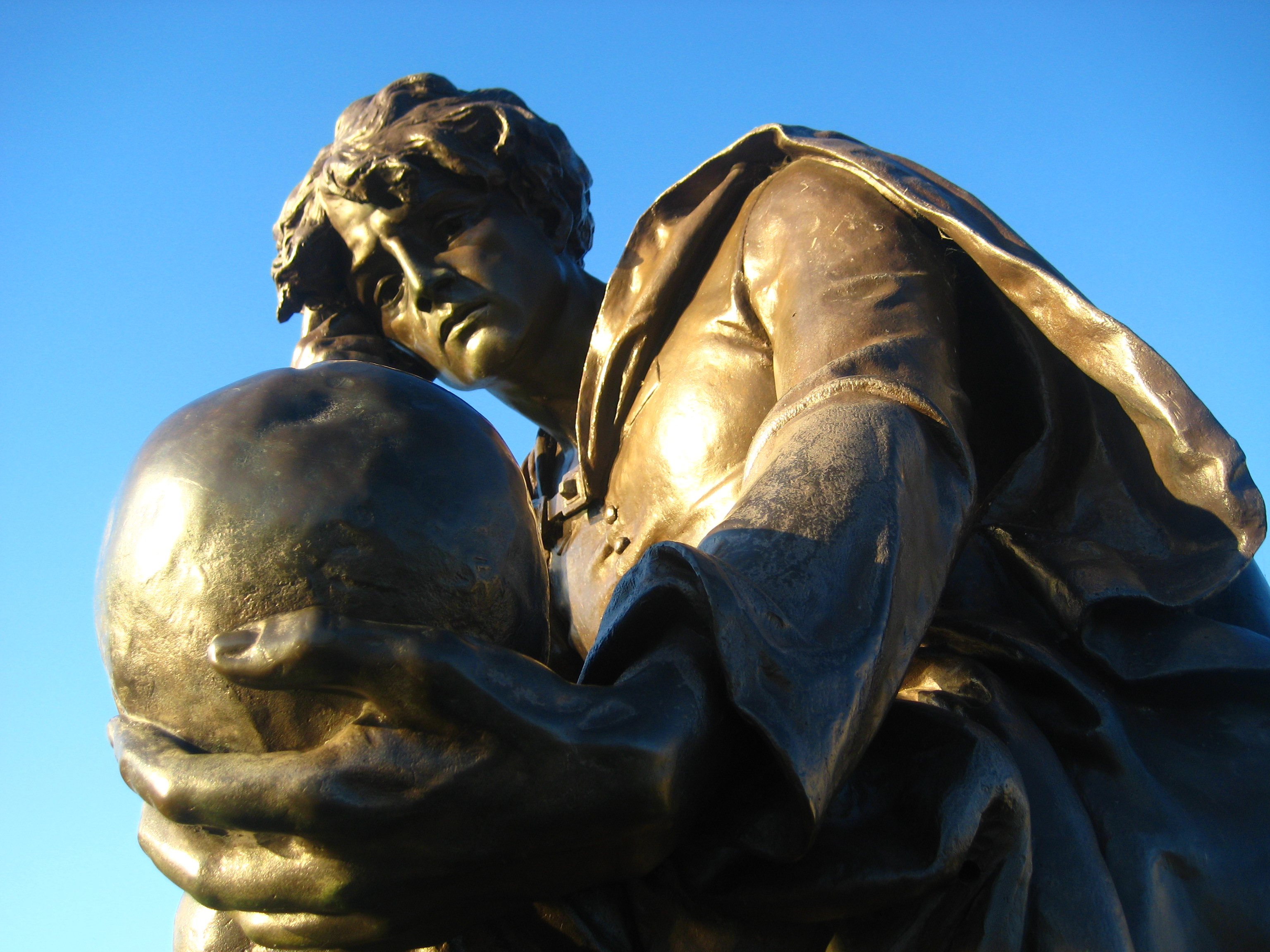 Sculpture of Hamlet.